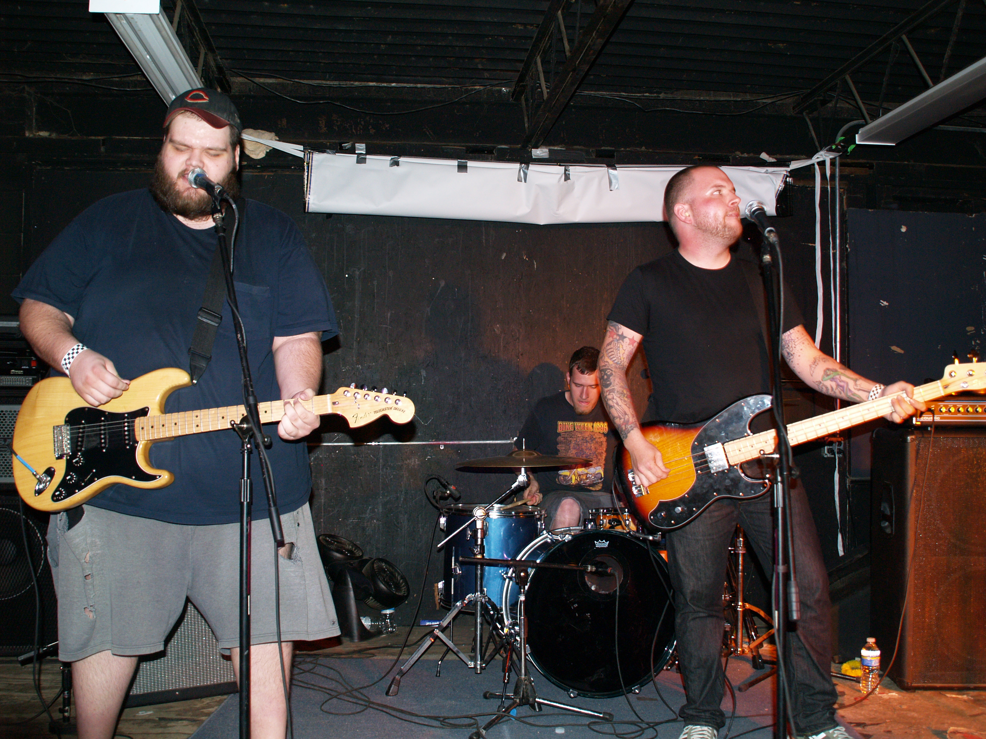 John Moreland and the Black Gold Band, Oklahoma City Conservancy (June 14, 2009)